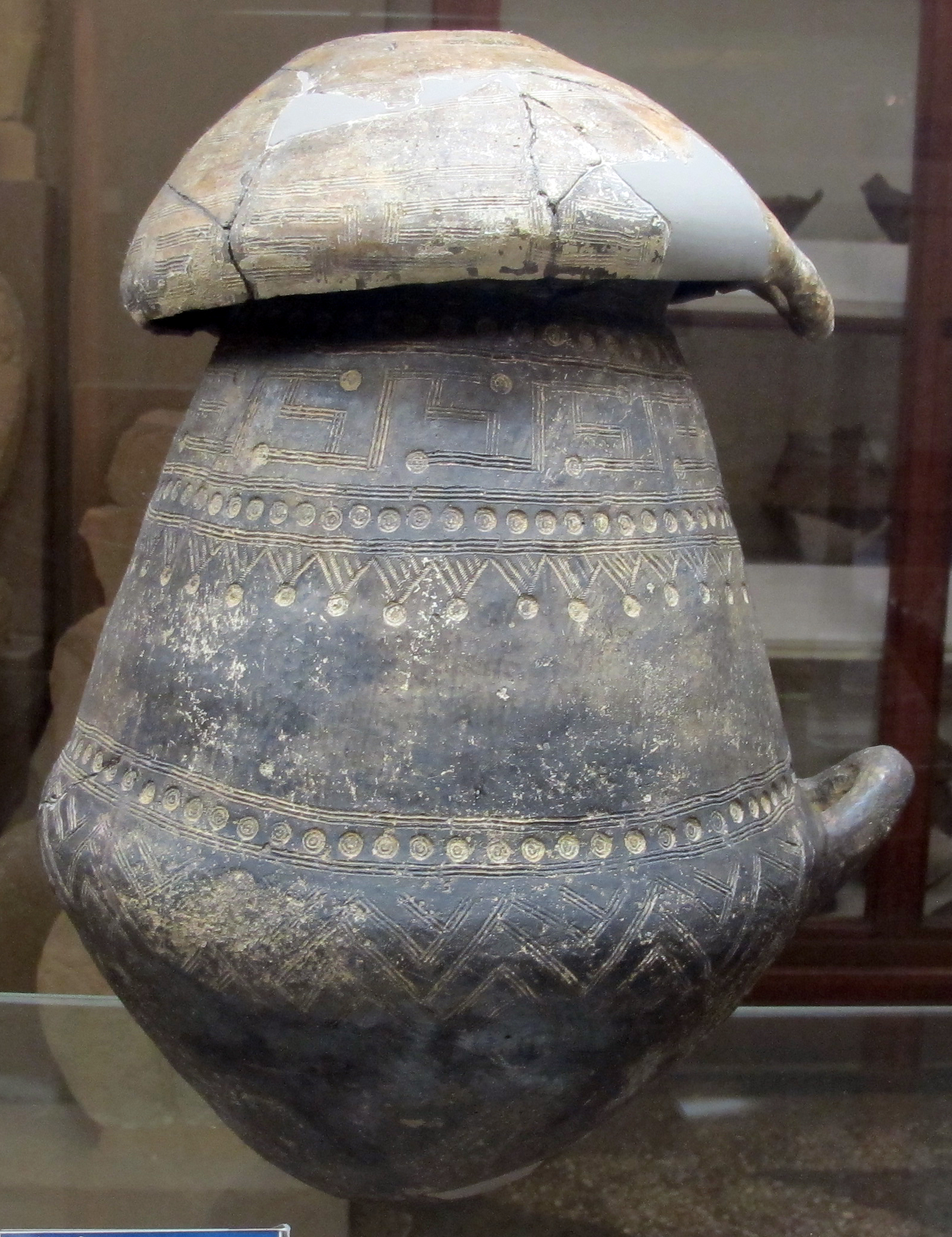 Etruscan antiquities in the Archeological Museum of Bologna